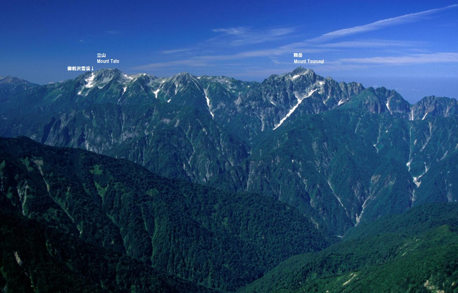 Mount Tate, Mount Masago, Mount Betsu(Bessan), and Mount Tsurugi seen from Mount Goryu, in Hida Mountains, Japan.